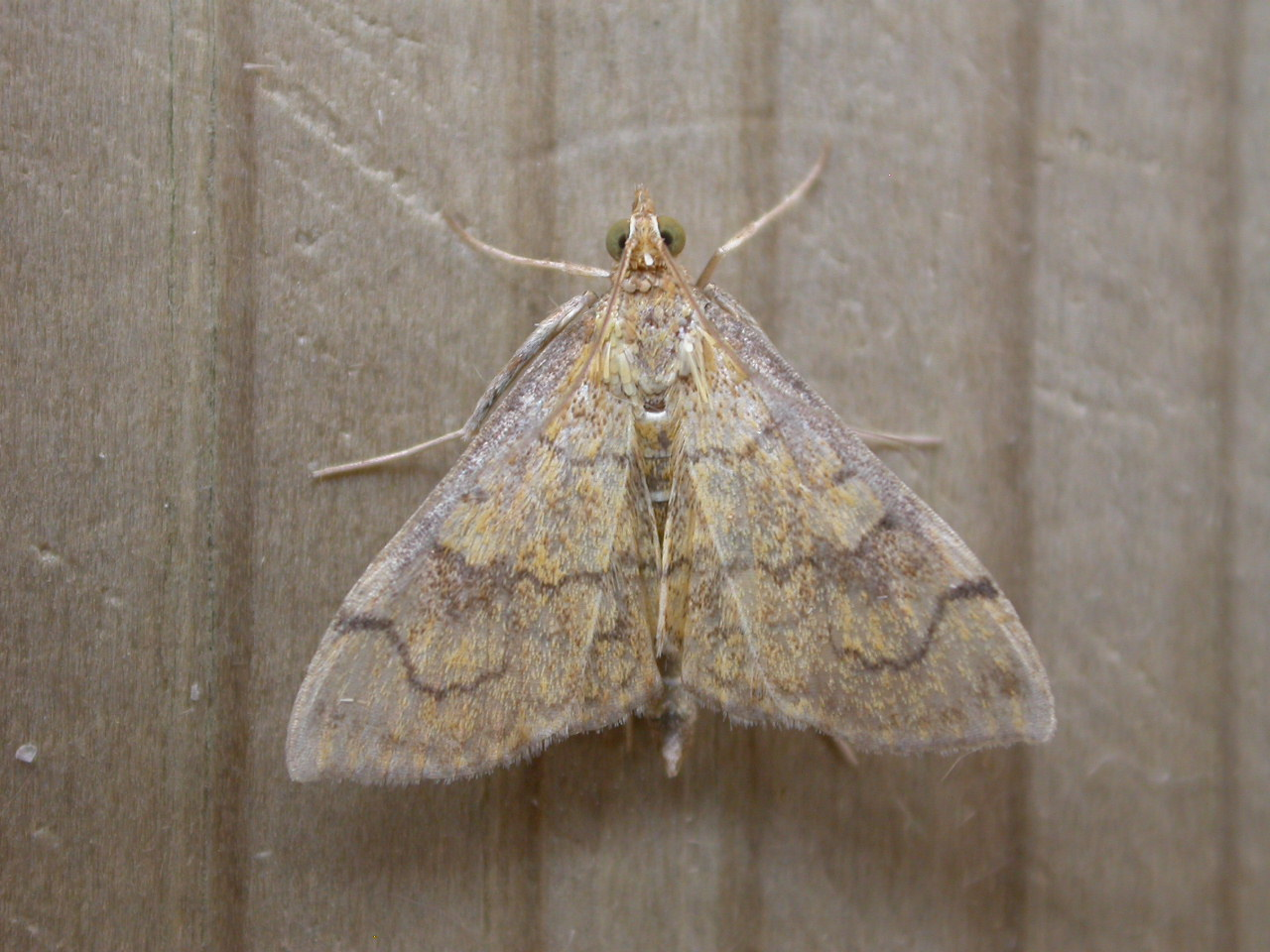 Anania verbascalis, Gastes, Landes, SW France, 4/5 July 2003